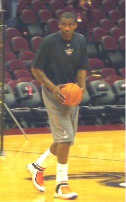 fixed brightnes and contrast using Adobe Photoshop